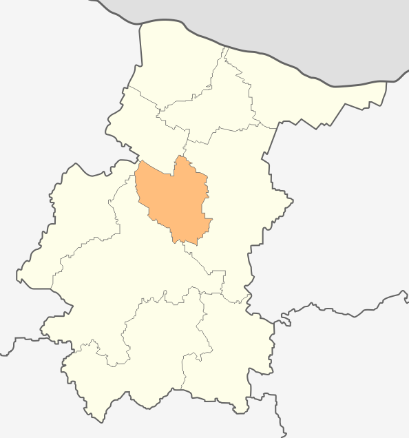 Map of Borovan municipality, Vratsa Province